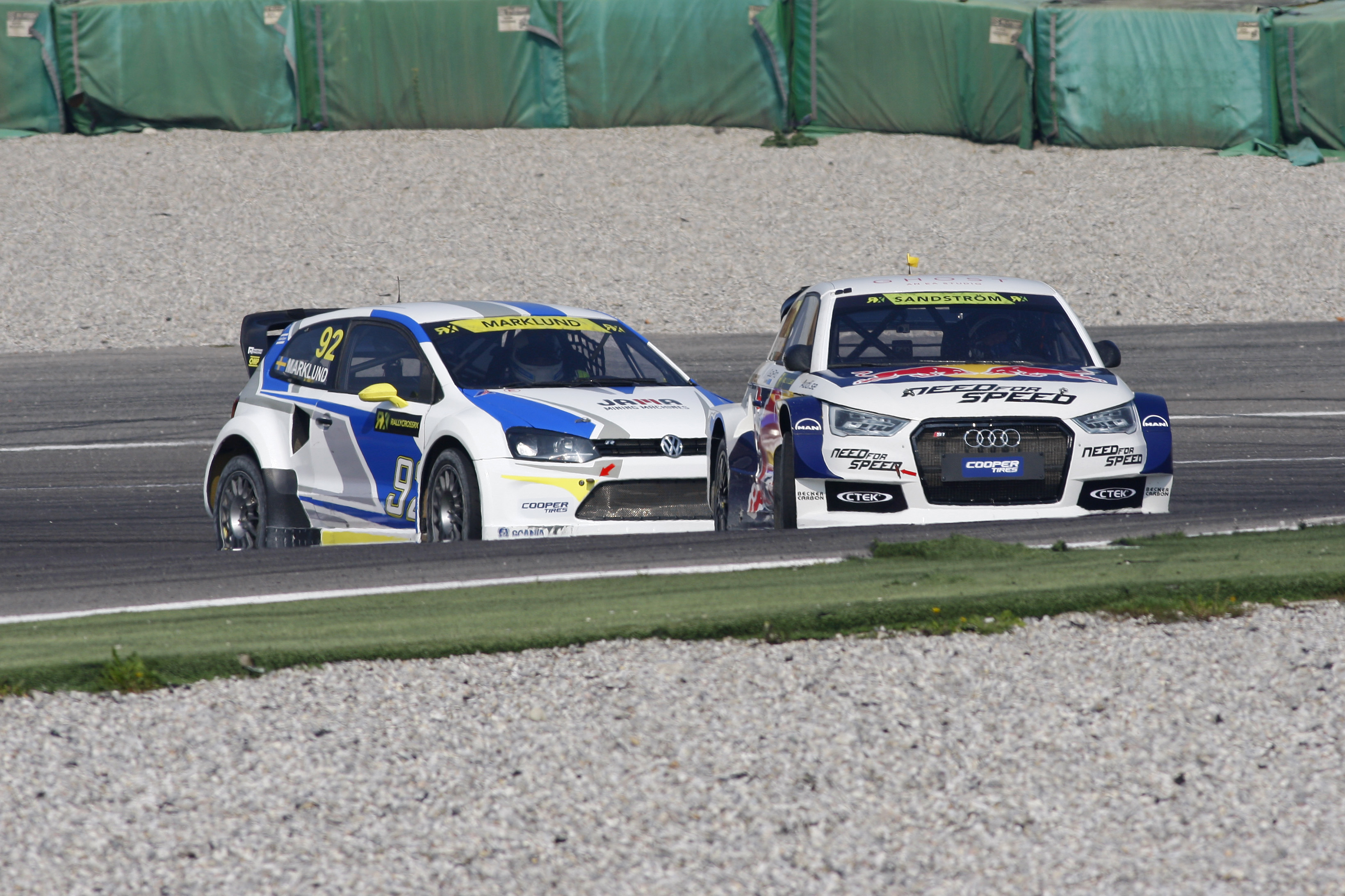 2014 FIA World Rallycross Championship Round 10 Franciacorta, Italy 27th & 28 th September 2014 Worldwide Copyright: EKS / McKlein